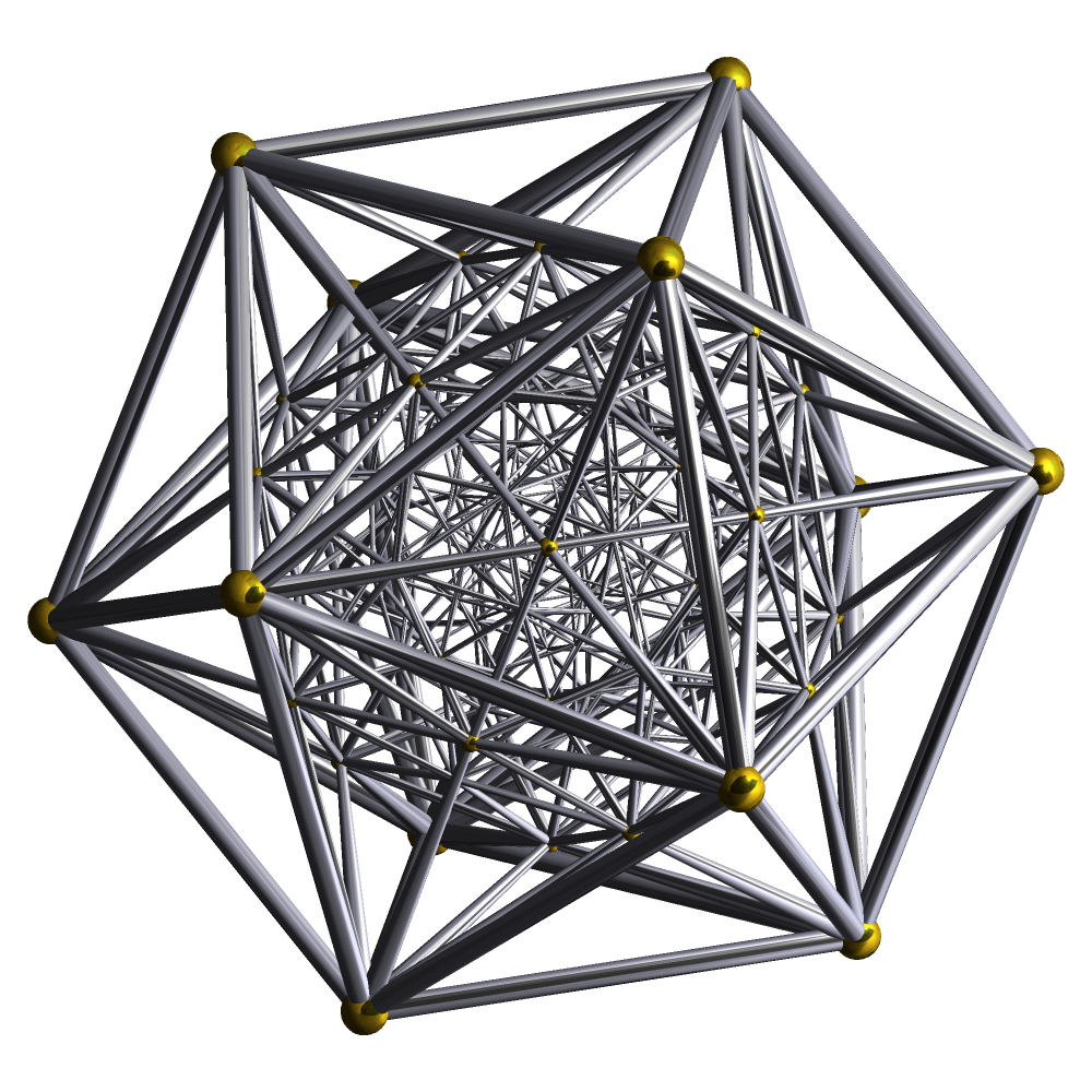 en:600-cell Schlegel diagram, wireframe, vertex-centered The copyright holder of this file, Robert Webb, allows anyone to use it for any purpose, provided that the copyright holder is properly attributed. Redistribution, derivative work, commercial use, and all other use is permitted. Attribution: Attribution must be given to Robert Webb's Stella software as the creator of this image along with a link to the website: A complimentary copy of any book or poster using images from the Software would also be appreciated where feasible. This work is free and may be used by anyone for any purpose. If you wish to use this content, you do not need to request permission as long as you follow any licensing requirements mentioned on this page.